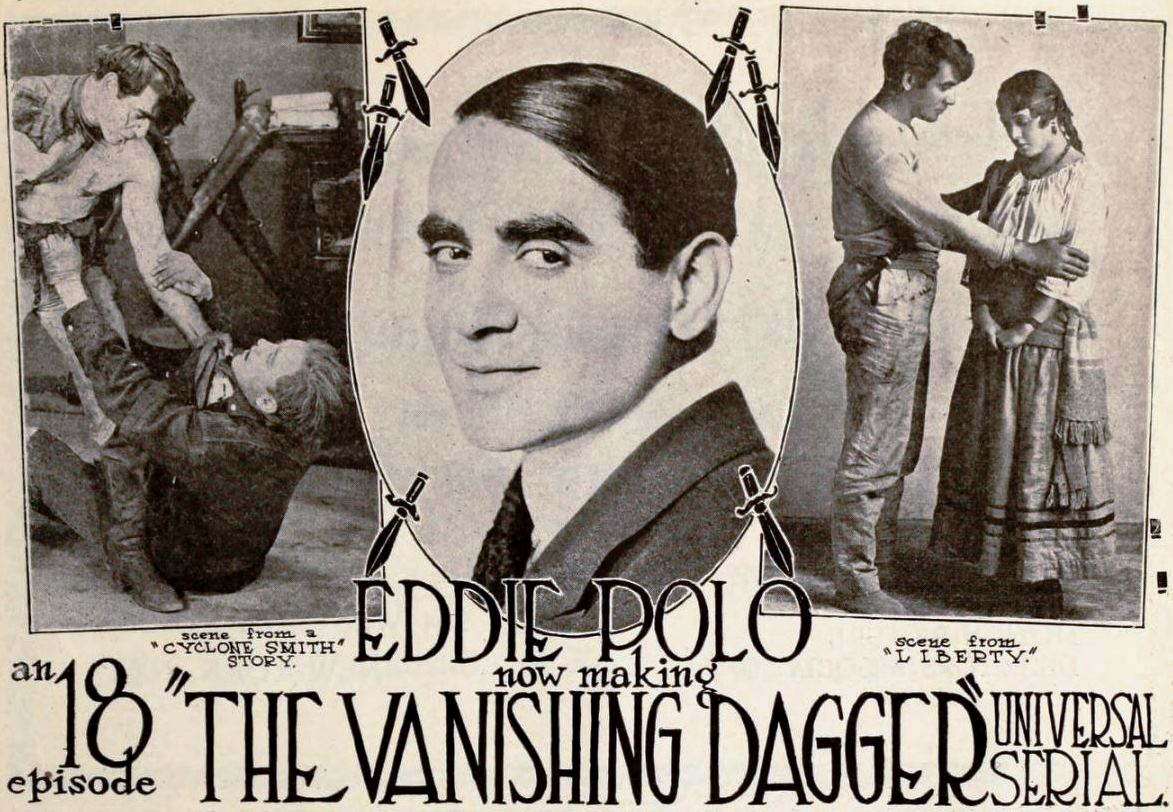 Advertisement announcing the American film serial The Vanishing Dagger (1920) with Eddie Polo, with stills from two prior Polo films, one a Cyclone Smith film and the other the film serial Liberty (1916), on page 165 of the December 27, 1919 Exhibitors Herald.